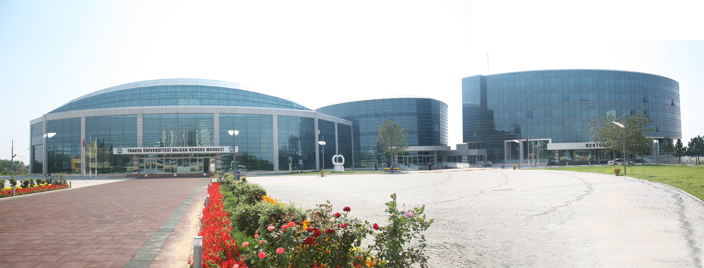 Rector`s Office and Convention Center Trakya University Edirne 2011